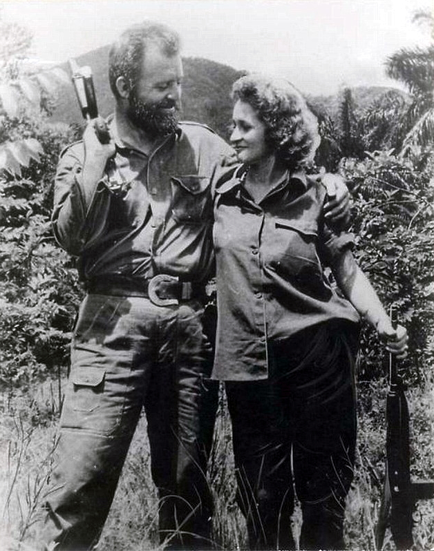 Williiam Morgan and Olga María Rodríguez Farinas in the mountains of Cuba.